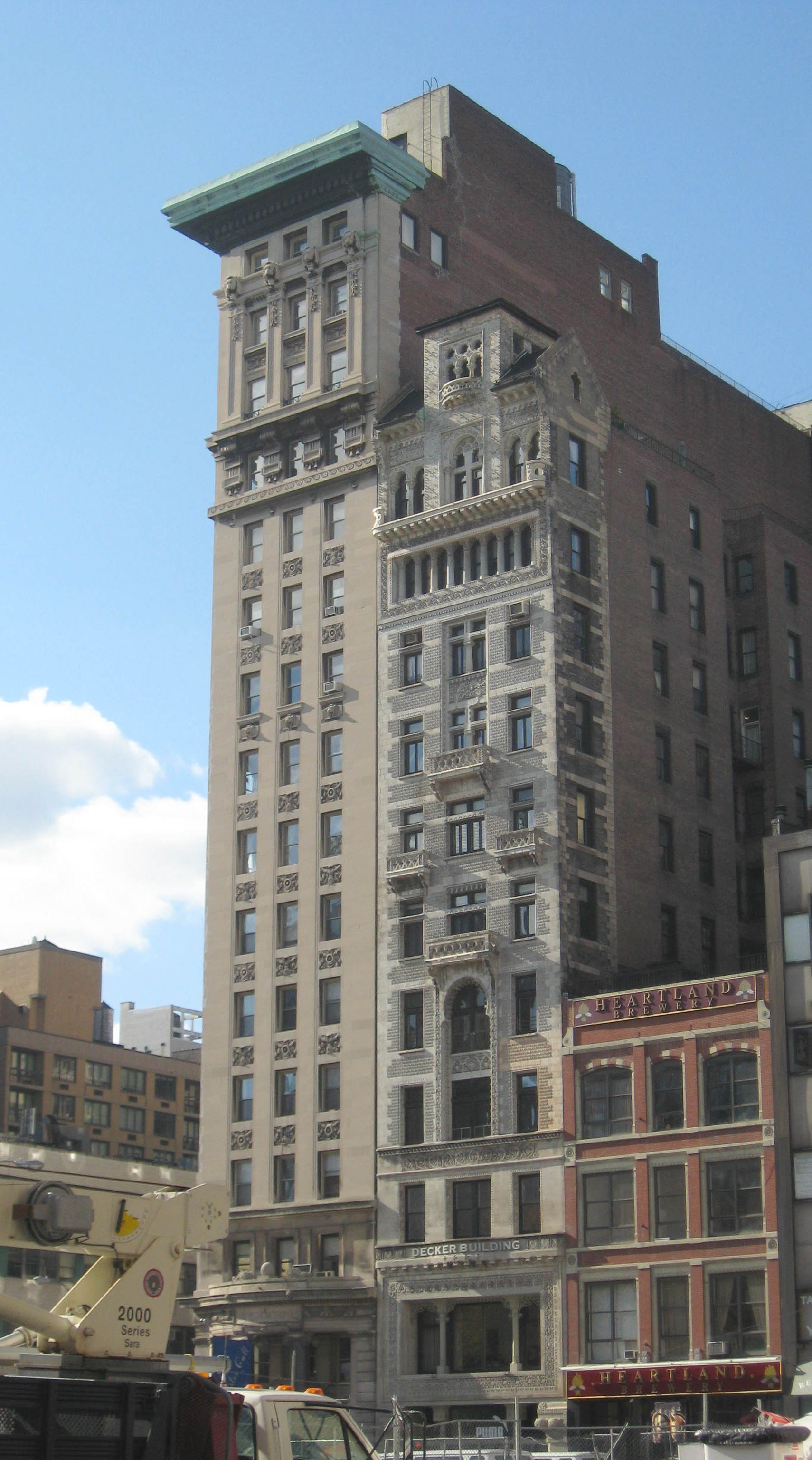 Looking west across 17th Street and the north end of Union Square at Decker Building (Union Building) flanked by the Bank of the Metropolis building on the left and the Heartland Brewery on the right on a sunny early afternoon. NYCLPC designation 1988.